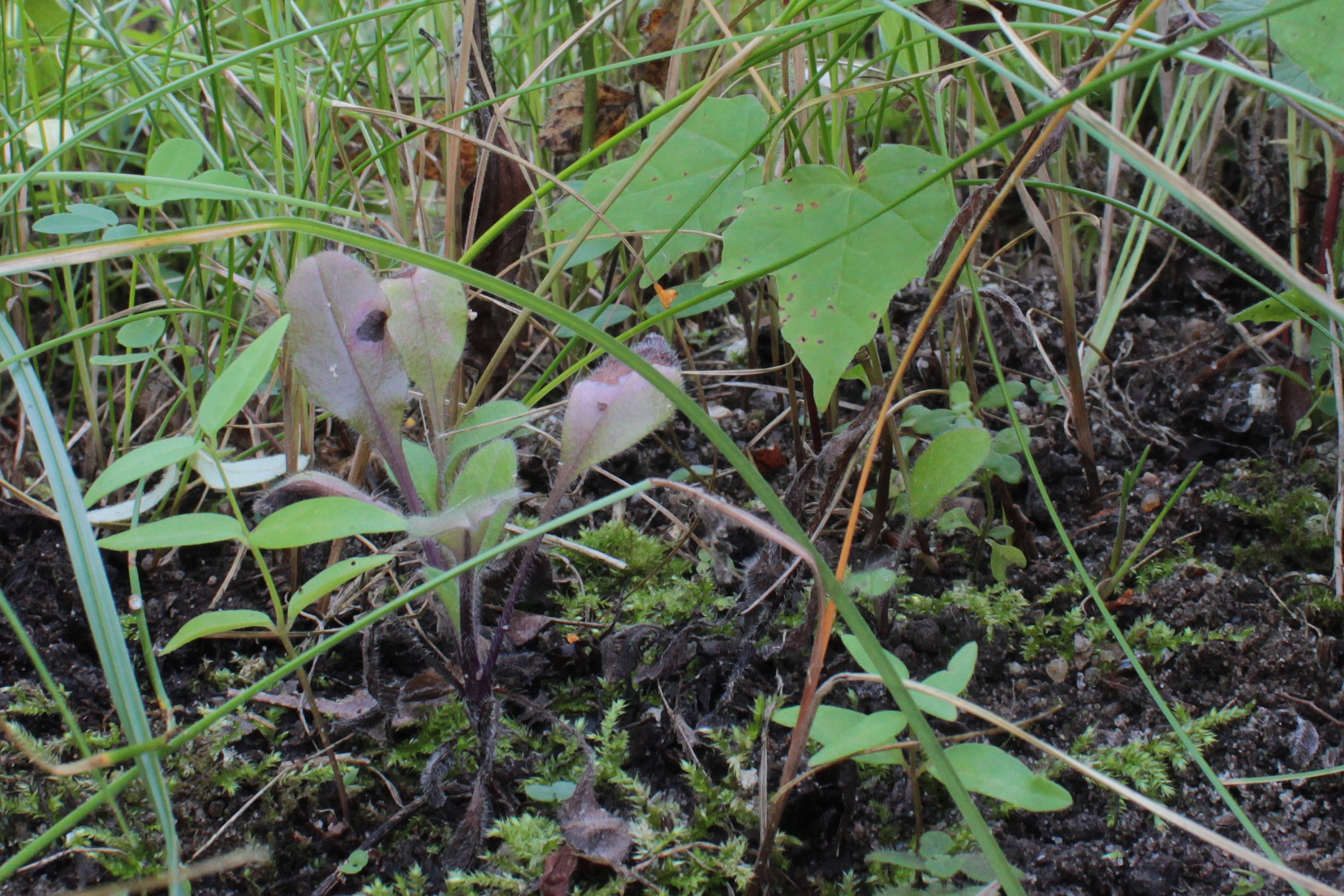 Weeding by hand gives the opportunity to think over the plants you want in your bed. Compare with the file below where you will find the names of the plants seen in the picture.